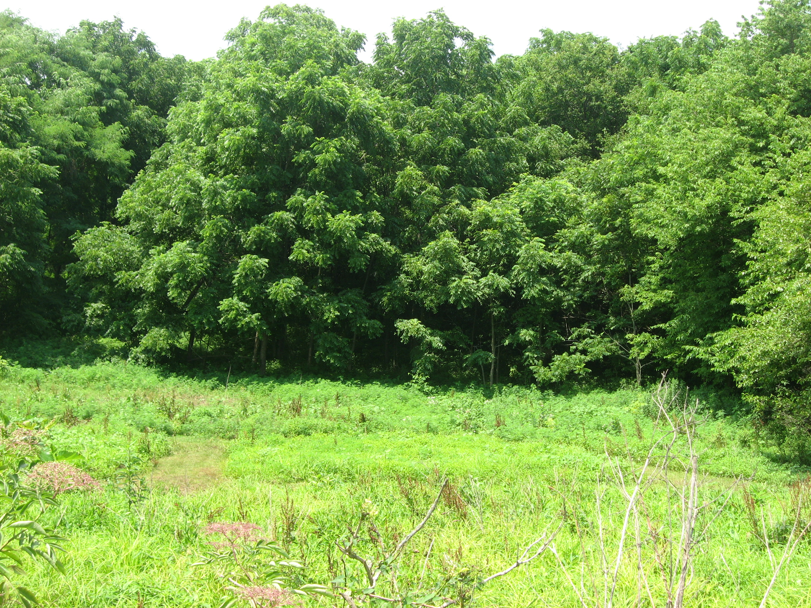 Part of the Osborn Site, located along County Road 100S southwest of Bloomfield in Fairplay Township, Greene County, Indiana, United States. Once used by Woodland period peoples, it is an archaeological site and listed on the National Register of Historic Places.